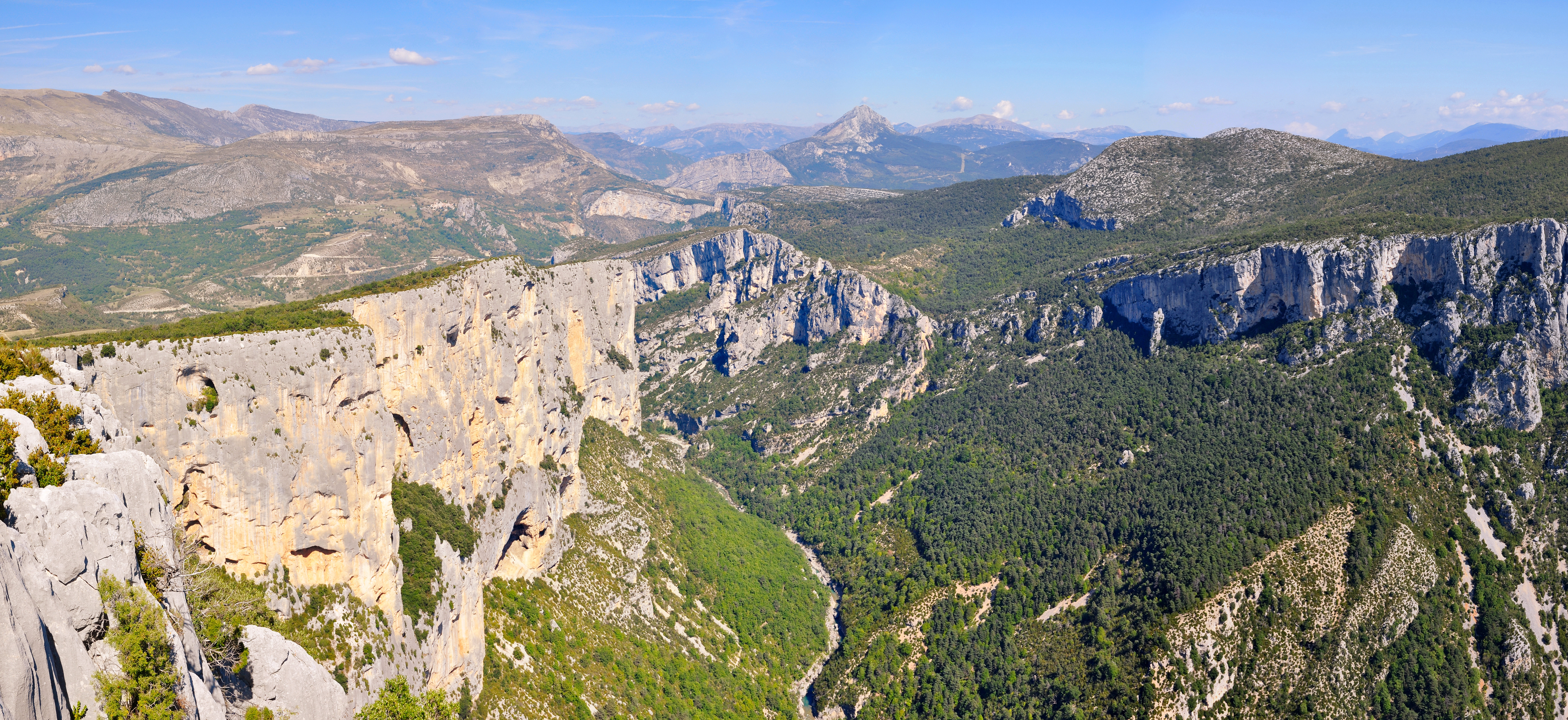 viewpoint "Falaise de l'Escalès" of the Verdon Gorge